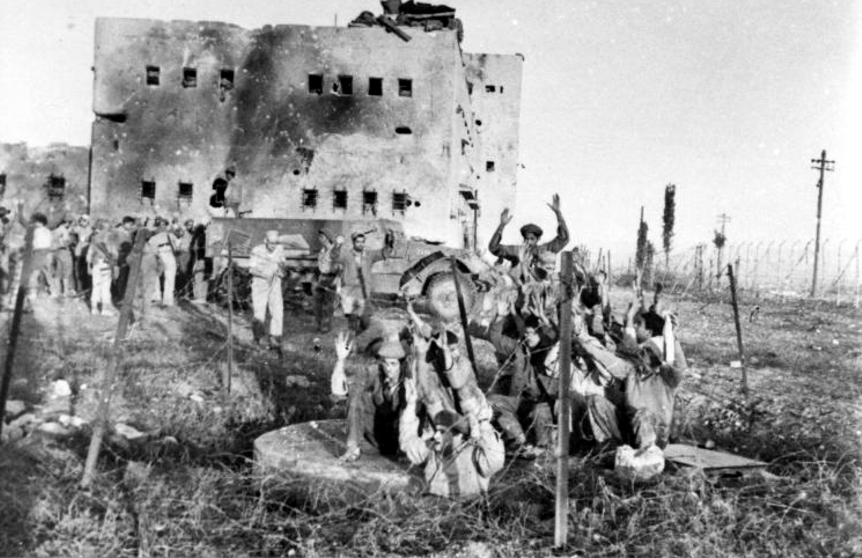 From Palmach archive. Prisoners taken at Iraq Suwaydan under bombardment. 9th November 1948.